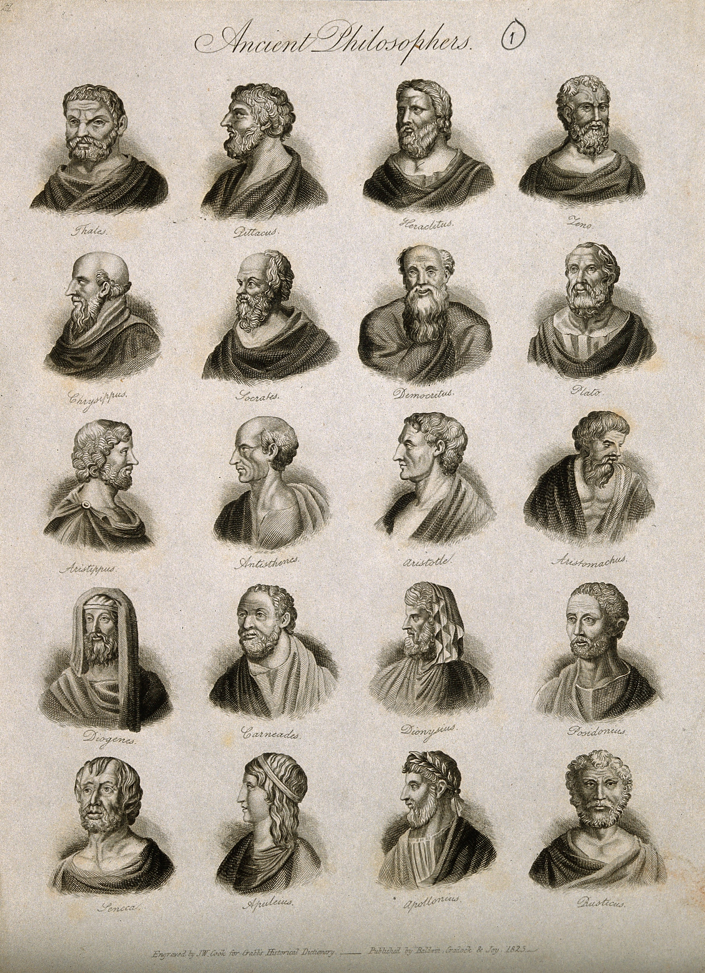 Philosophers: twenty portraits of classical thinkers. Engraving by J.W. Cook, 1825. Iconographic Collections Keywords: Apollonius; Aristotle; Aristippus; Zeno; Carneades; Aristomachus; Dionysius; Plato; Thales of Miletus; Pittacus; Diogenes Cynicus; Socrates; Chrysippus; Apuleius; J. W. Cook; Heraclitus; Lucius Annaeus Seneca; Antisthenes; Rusticus; Posidonius